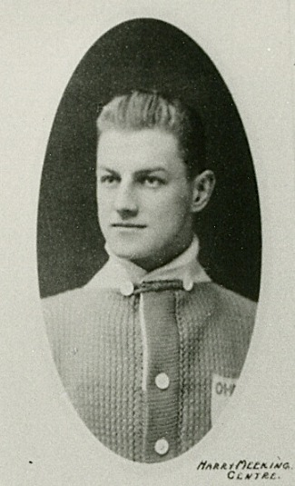 Harry Meeking of Toronto Arenas hockey club ca. 1917–1918